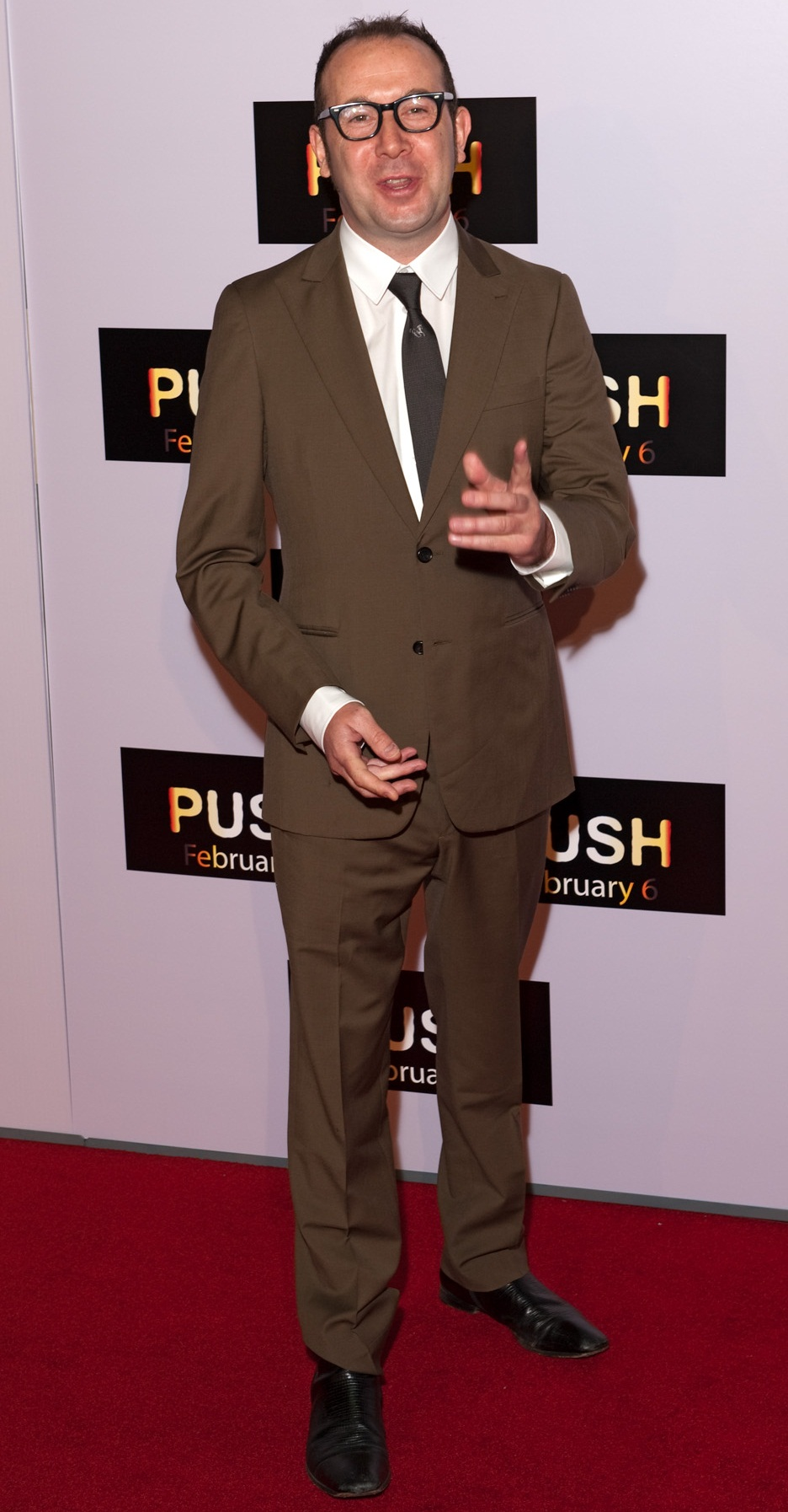 Scottish film director Paul McGuigan arriving at the premiere of his new film, Push, Mann Theater, Westwood.